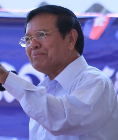 Kem Sokha talks to CNRP activists and supporters in Por Senchey district, west of Phnom Penh, on March 6, 2016.